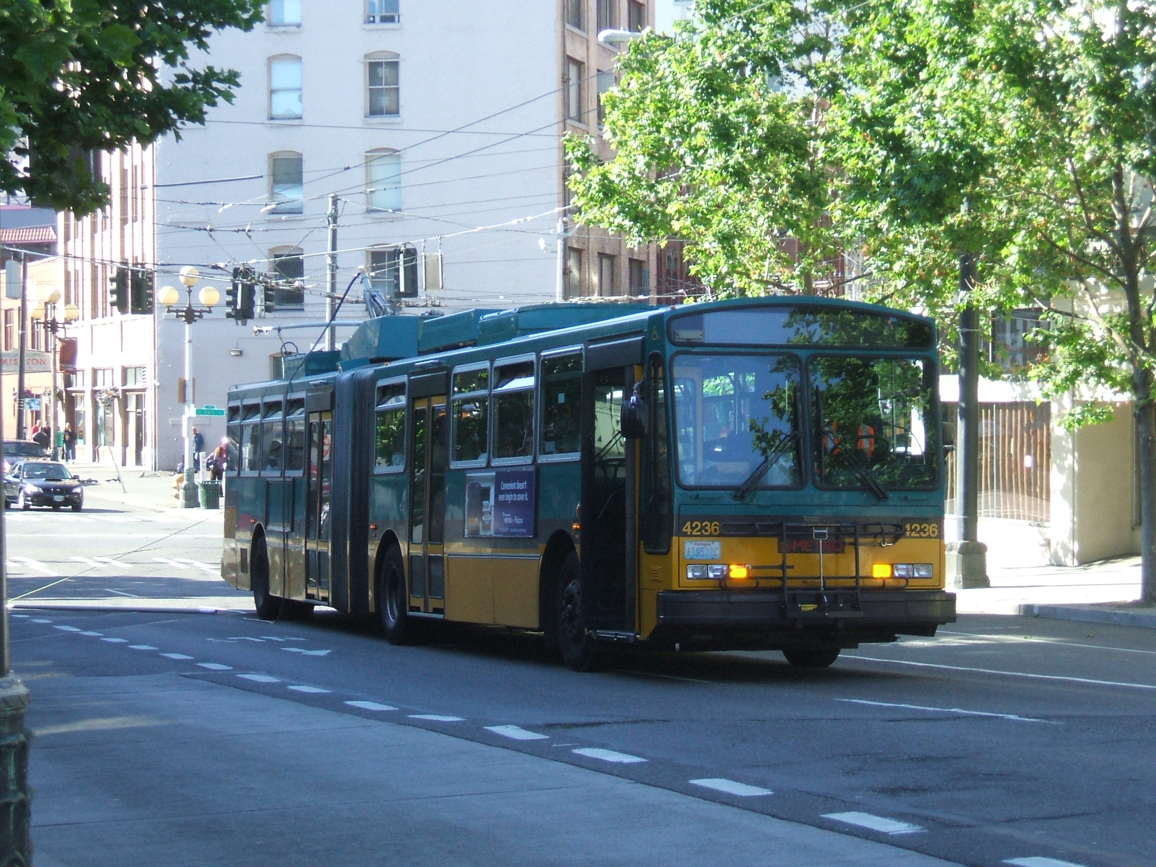 A Metro Transit electric-powered bus breaks down on 2nd Avenue Extension, Seattle, WA, USA. Areas of Downtown Seattle have a legacy network of overhead catenary wires that are still used by traditional bus routes. Occasionally, buses coming down 3rd Avenue turn too fast onto 2nd Avenue Extension, and one or both of the pantograph arms become dislodged, requiring the bus to stop in the middle of the road, and the driver come out and re-set the arms onto the wire via tension cables in the rear. In this extreme case, the entire pantograph arm has broken off the bus and lies on the roadway.